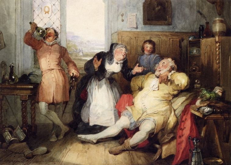 "Falstaff and Mistress Quickly from 'The Merry Wives of Windsor,'" by British artist Francis Philip Stephanoff. Watercolor.